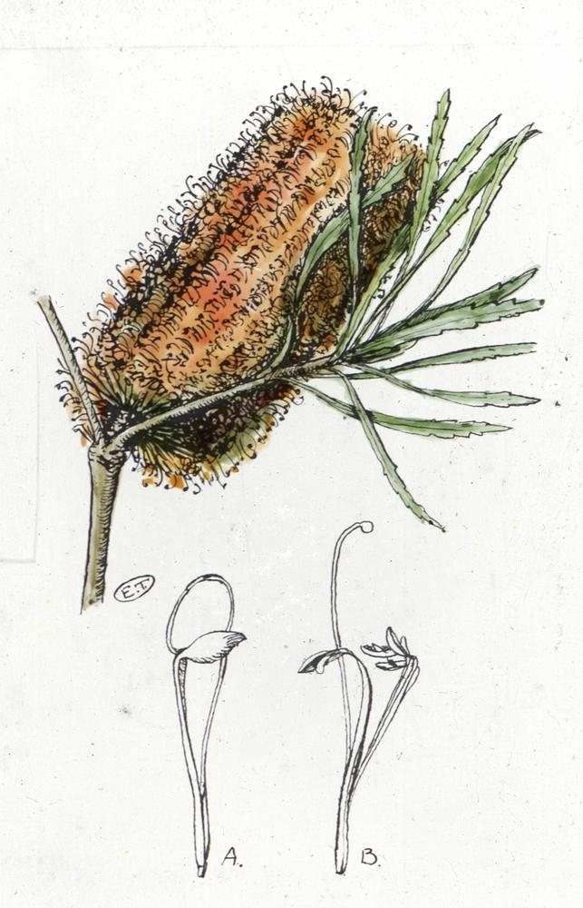 Banksia collina, illustration by Estelle Thomson, 1929